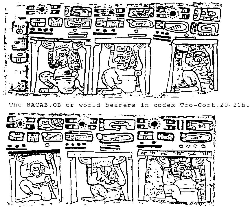 The Bacabs as depicted in the Madrid Codex